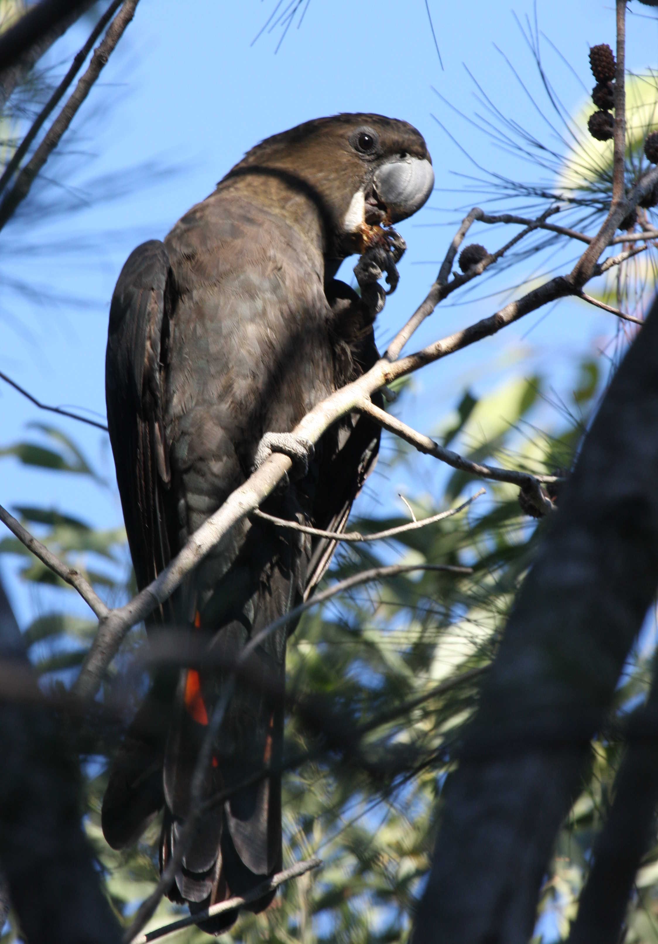 Glossy Black Cockatoo (Calyptorhynchus lathami) Male, Kobble Creek, SE Queensland, Australia